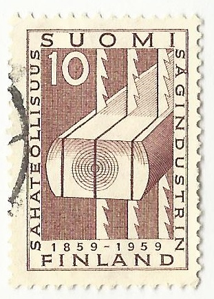 a stamp for 100 years of saw industry in Finland 1859-1959, published 1959